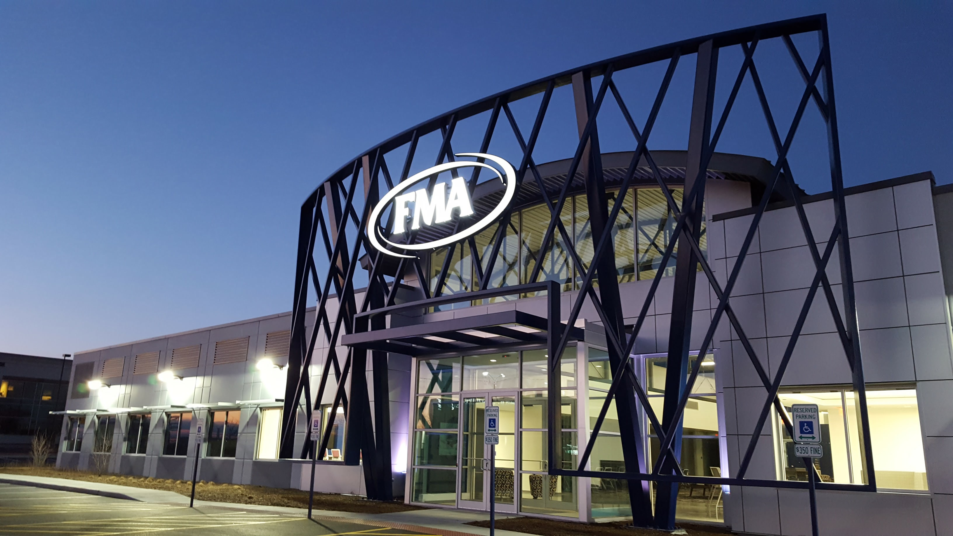 The south entrance to FMA headquarters, just North of I-90 and facing the highway. The supporting beams that hold up the FMA logo are structural steel. The piece arrived in three sections, and were welded together and mounted on-site in January of 2017.